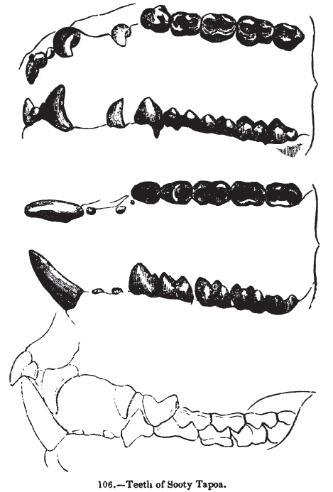 Dentition of a common brushtail possum